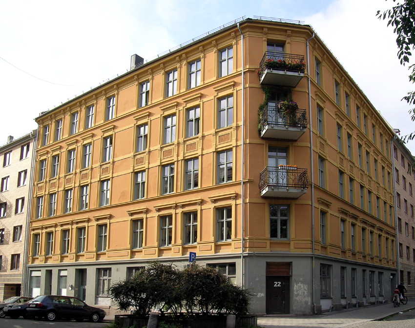 Sverdrups gate 22, Oslo, Norway. Apartment block built 1898. Architect: Karl Høie. Rebuilt according to ecological principles 1995 by architects GASA Arkitektkontoret AS.